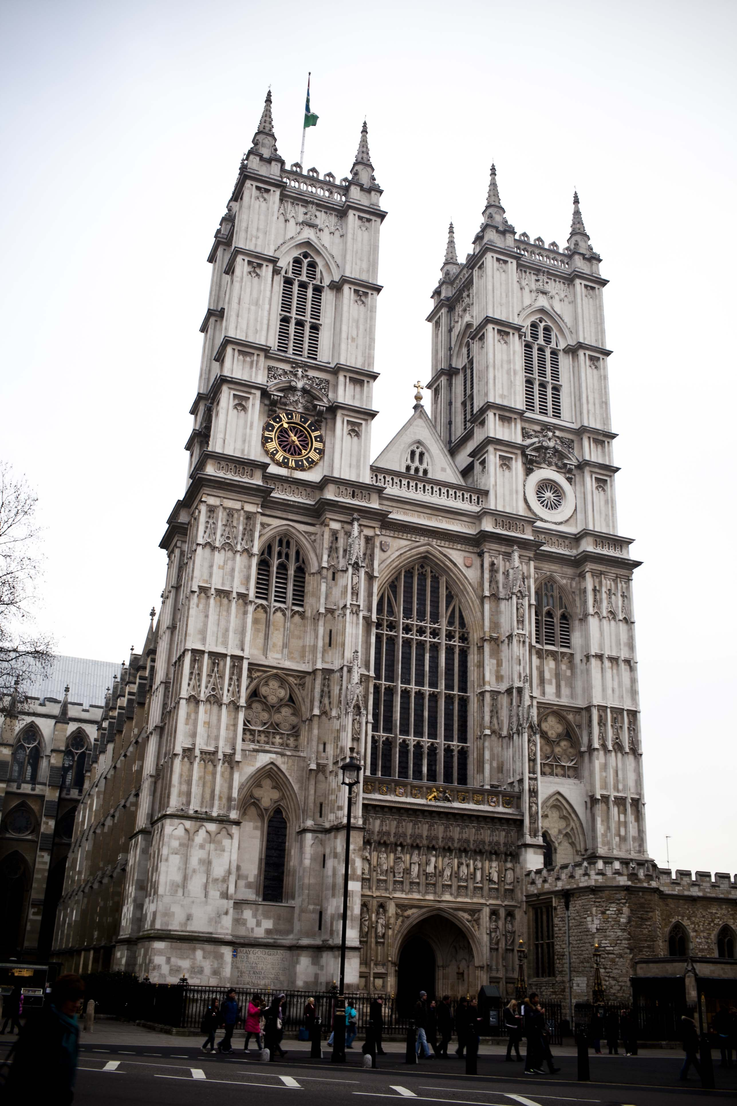 Wide shot of Westminster Abbey - the wedding venue of Prince William of Wales and Catherine (Kate) Middleton.